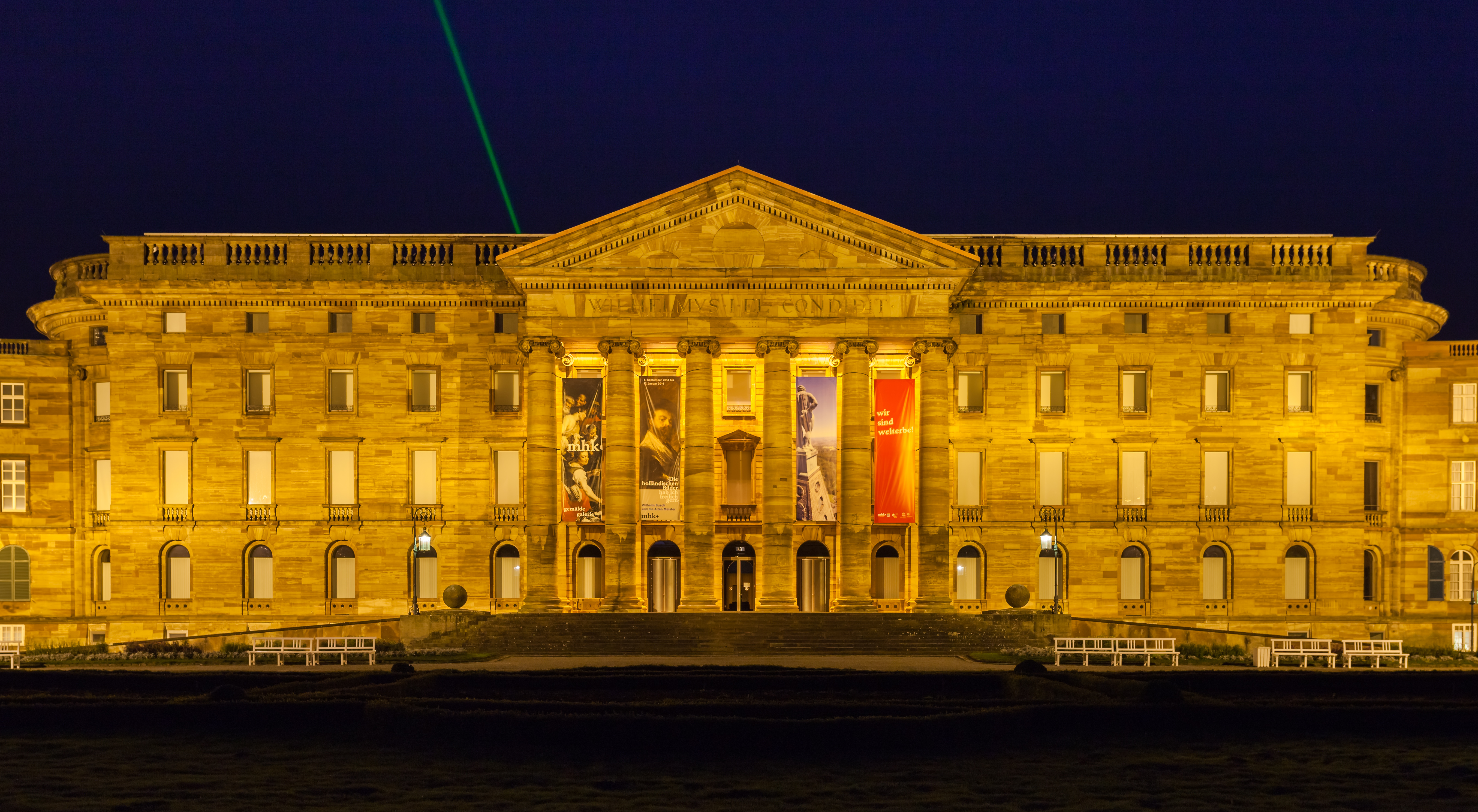 Wilhelmshöhe Palace, Kassel, Germany